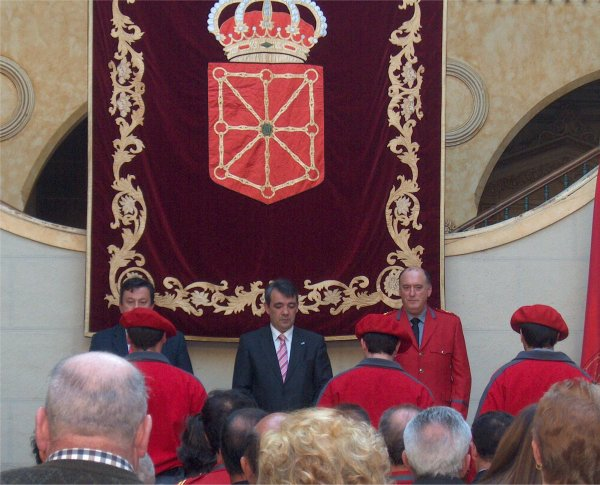 The coat of arms on the background, depicts the arms of (historical) Navarre.